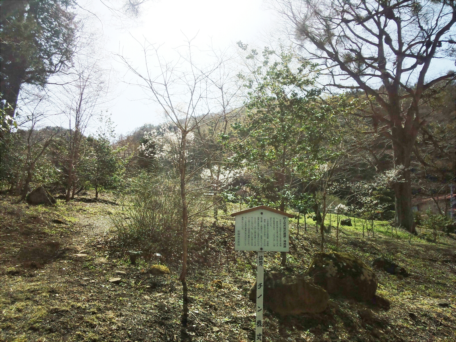 Site of the Gōdono (神殿), once the residence of the former high priest of the Suwa Kamisha.